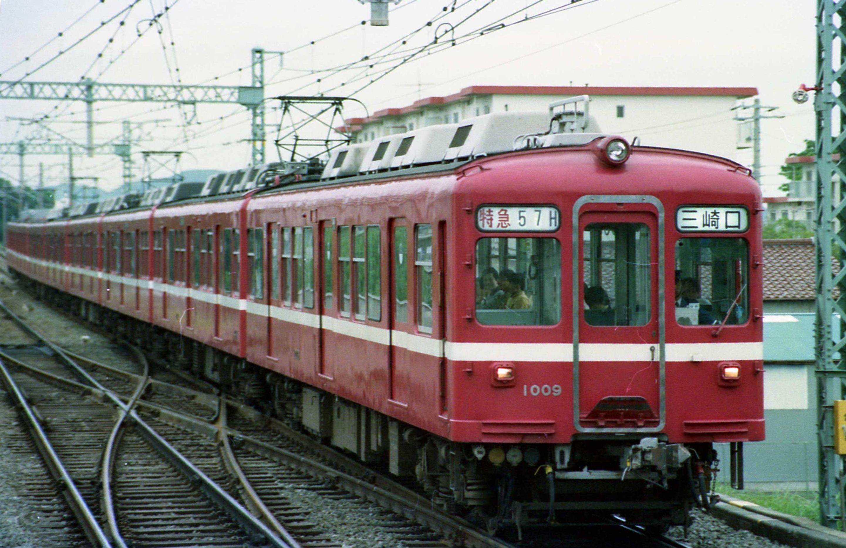 A limited express with Keikyu 1009 to Misakiguchi. Taken at Miura Kaigan station. This six car unit, even though this picture is with additional two cars at the end, wat the only six car units consist of carriages built without corridor in front of driving cars at the enof of 1980s. Probably because high usage as six car units. 100-1012 were withdrawn from the operation as the first withdrawn unit with air conditioners.